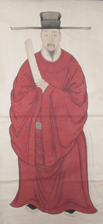 Dong Qi, offician of the Ming Dynasty.